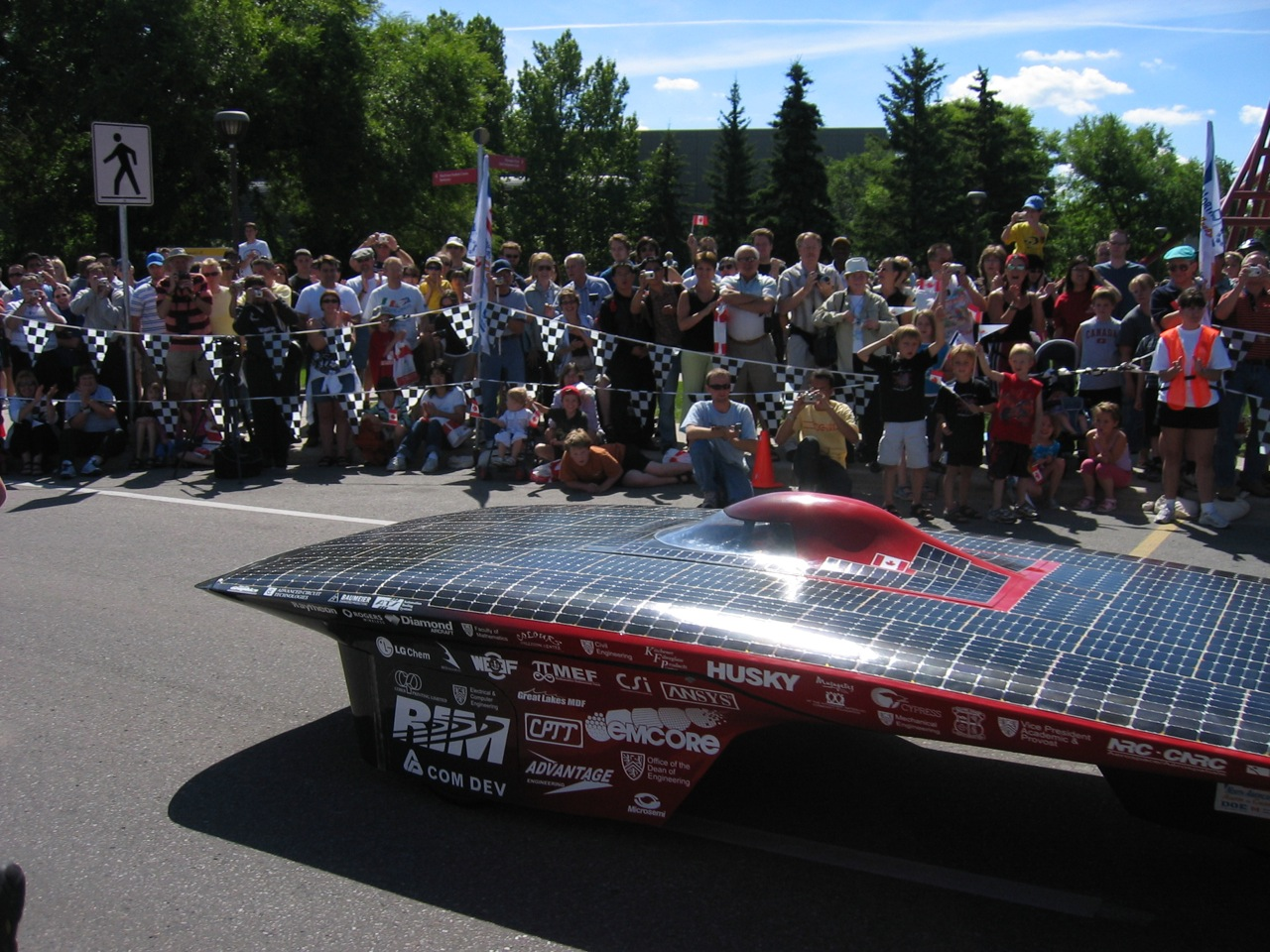 A photo of Midnight Sun Solar Race Team's 2005 car Midnight Sun VIII.